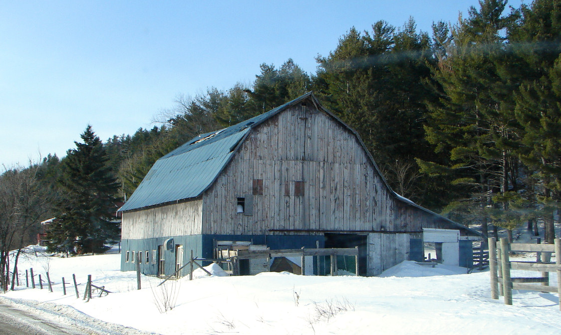 Barn in L'Ange-Gardien, Outaouais, Quebec